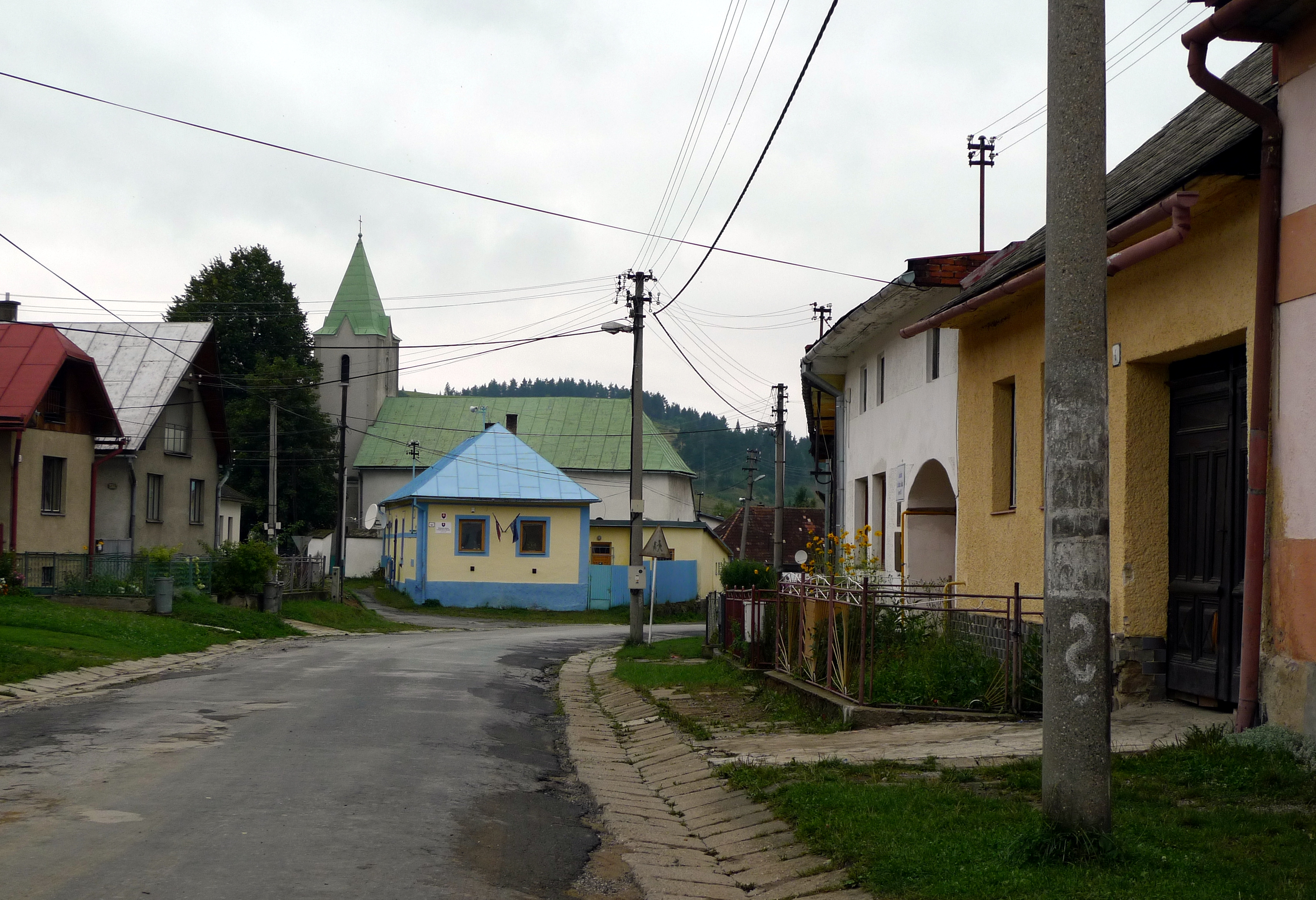 Downtown of Jurské, village in Slovakia Česky: Centrum slovenské obce Jurské